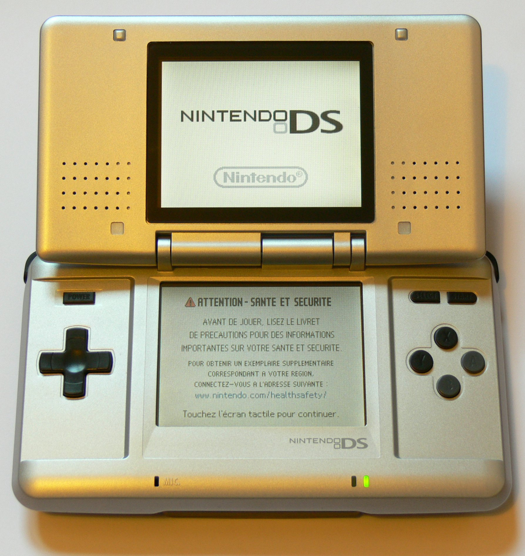 My personal DS, under french startup screen.